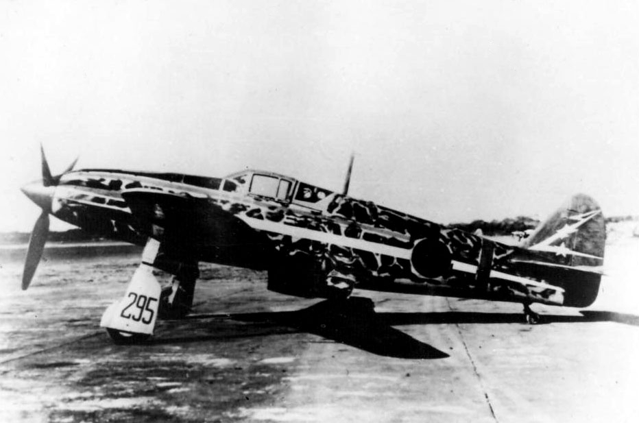 A Kawasaki Ki-61 Hien (Ki-61-I Hei) of the 244th squadron (Fighter Regiment), Imperial Japanese Army Air Force. "295" was the plane assigned to captain Kobayashi Teruhiko.